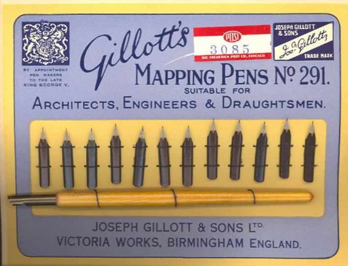 Pack of Gillot's 291 drawing pens